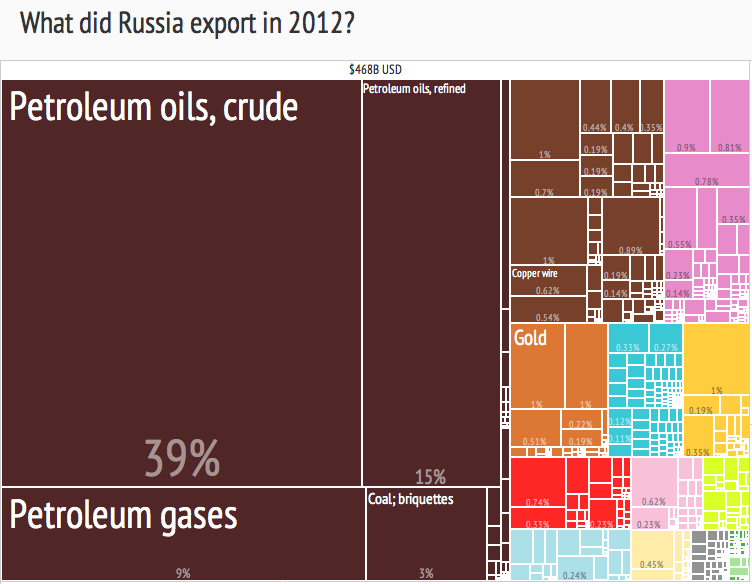 2012 Russia Products Export Treemap